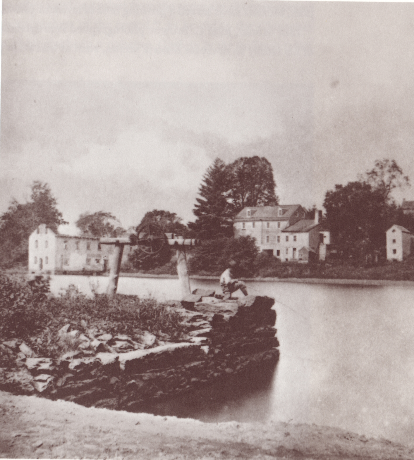 Mill Creek in Haverford, Pennsylvania was dammed to create Dove Lake. This is the same stone outcropping seen in 1880s photographs by Thomas Eakins and in his 1885 painting Swimming.